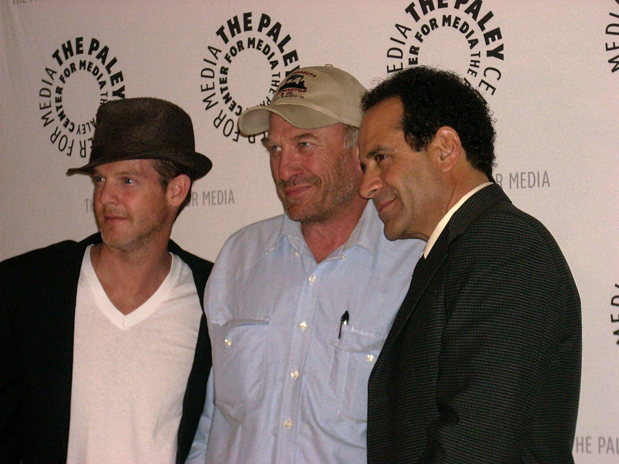 "Monk: 100 Episodes and Counting..." - Paley Center for Media, Dec. 2, 2008